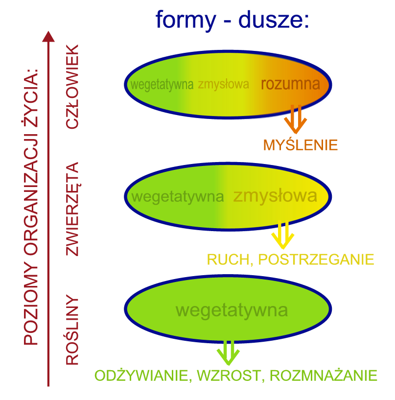 Aristotle's conception of the soul